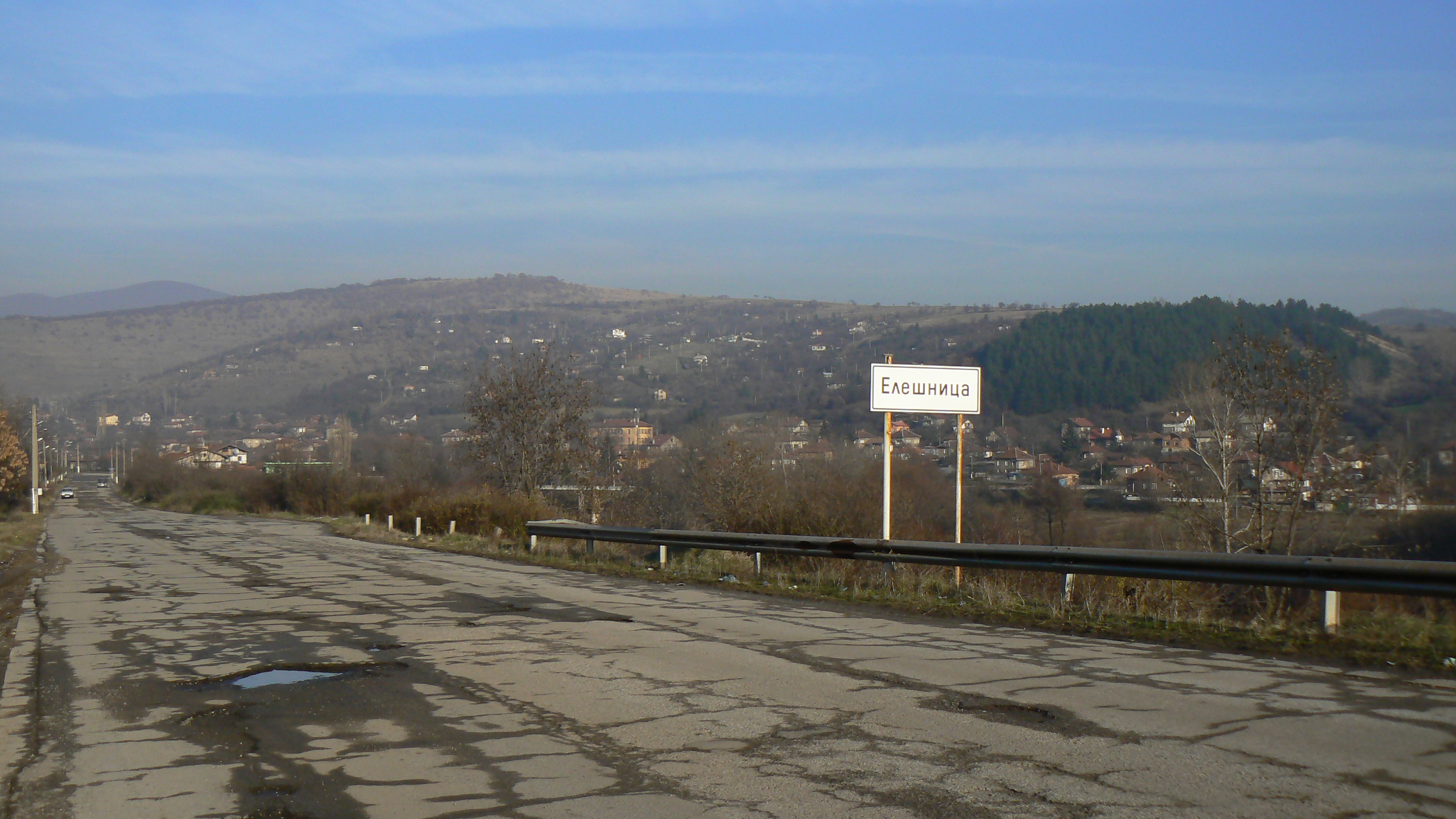 View to village Eleshnitsa, Bulgaria